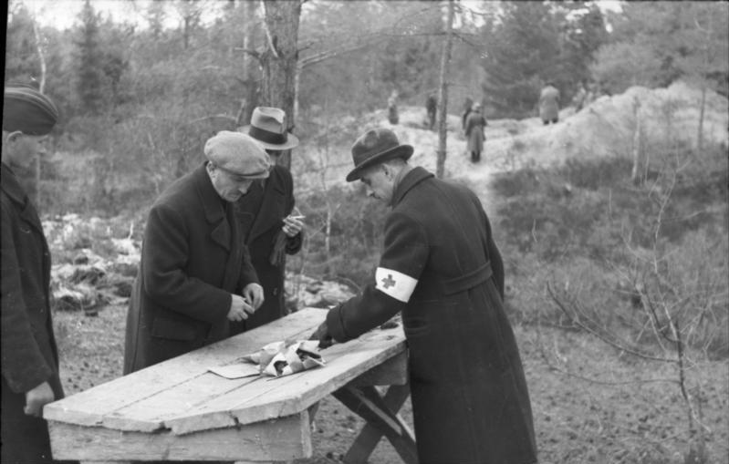 Opening of mass graves in the spring of 1940 of murdered Polish officers in Soviet captivity